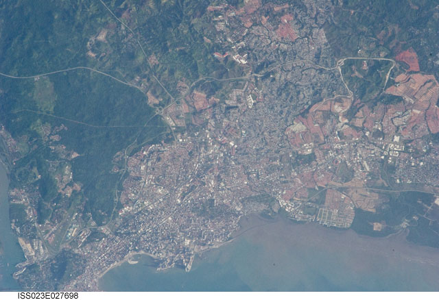 Astronaut Photo of Panama City, Panama taken from the International Space Station (ISS) during Expedition 23 on April 23, 2010.